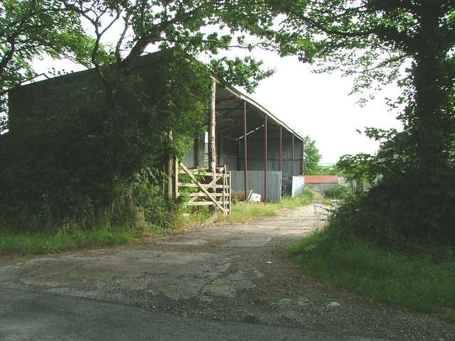 Langdon Outbuildings. Home to an old dinghy and a (possibly older) Reliant Scimitar.